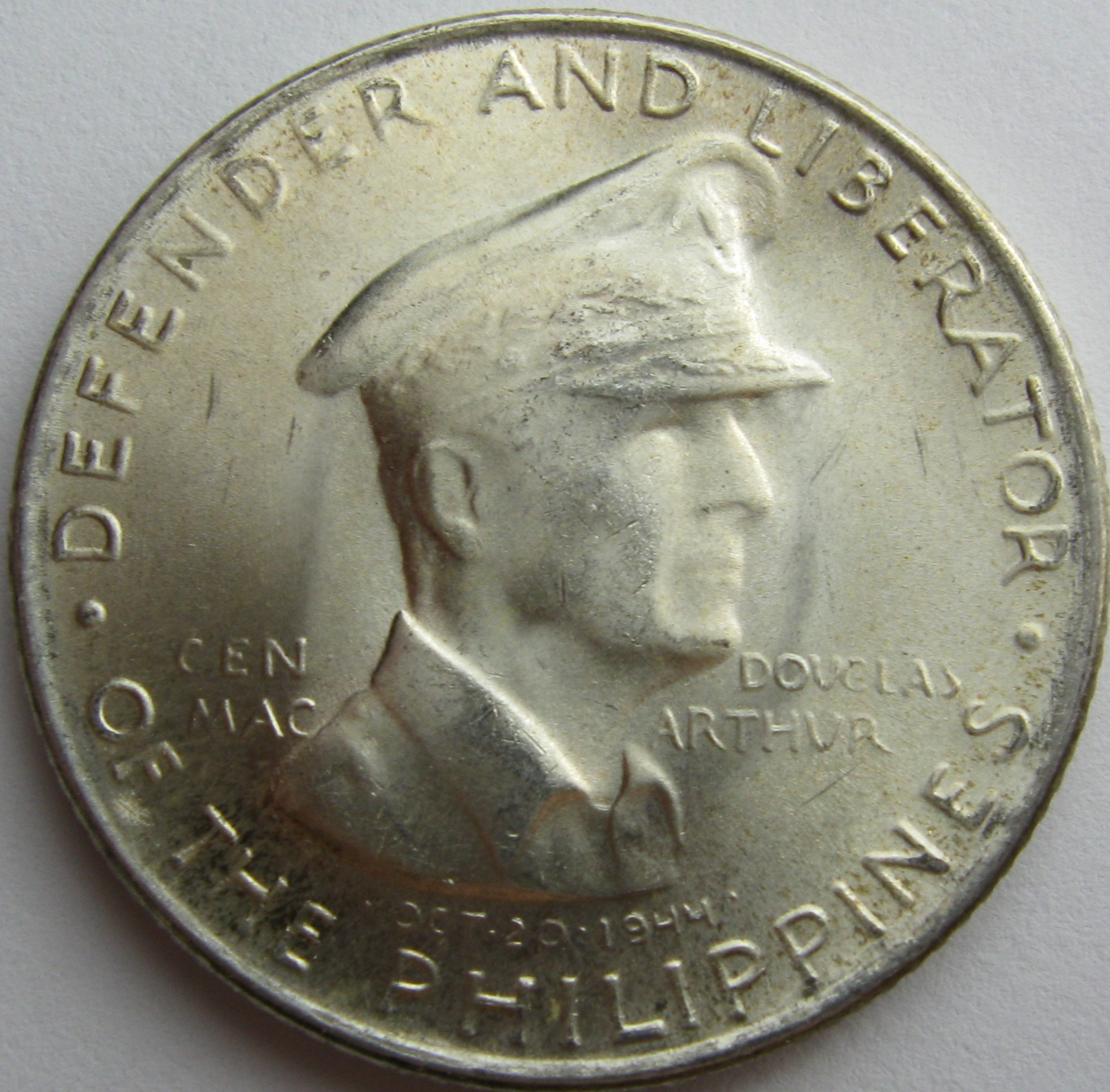 1947s Philippines Douglas MacArthur commemorative coin